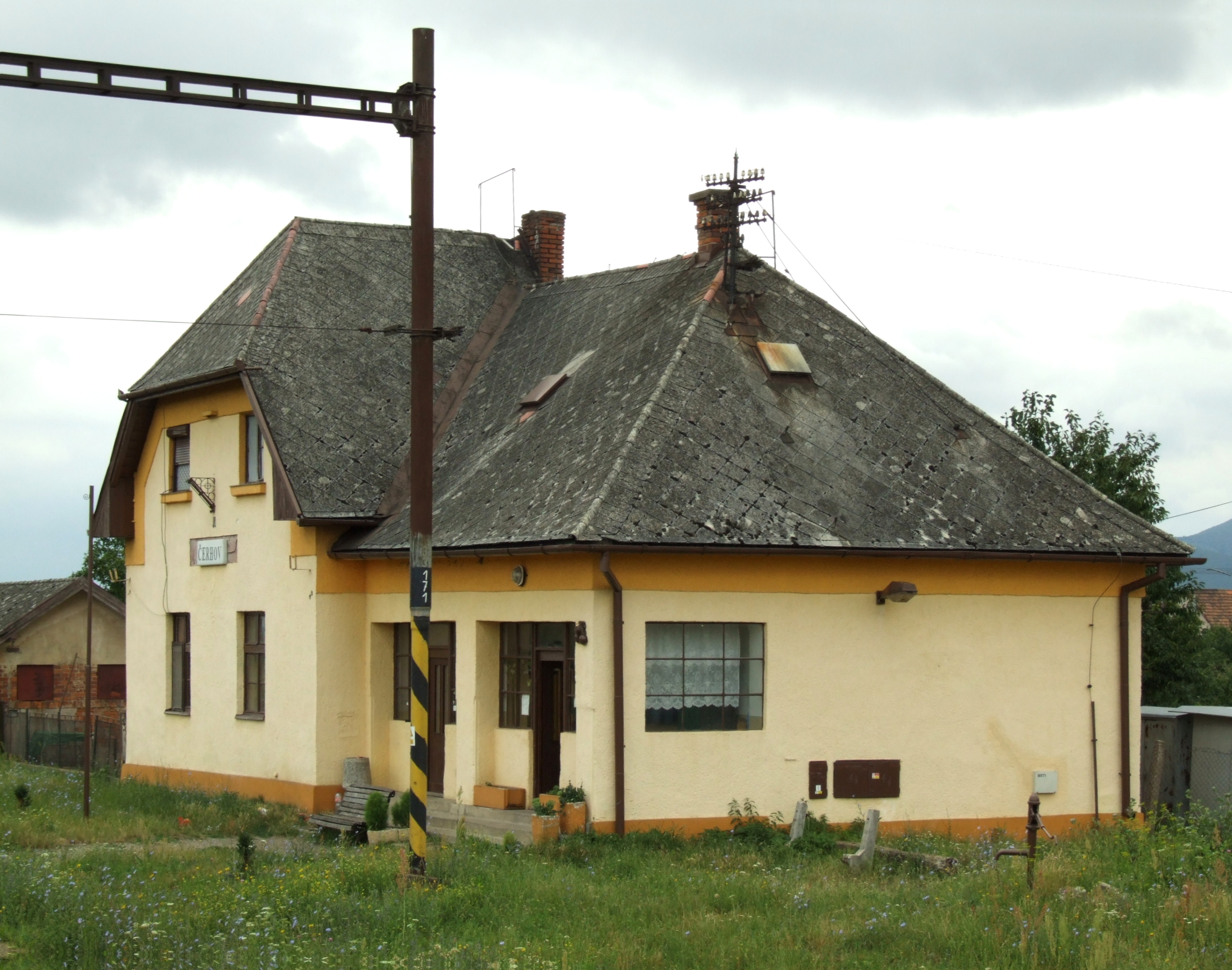 Čerhov - train station